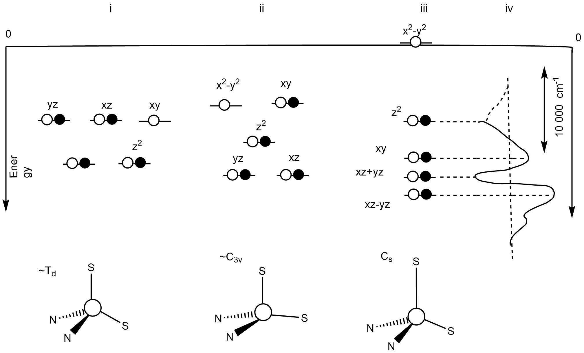 Energy Diagram representing the blue copper protein ligand field effect